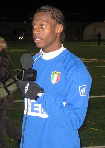 Anthony Adur in 2006 with Italia Shooters.